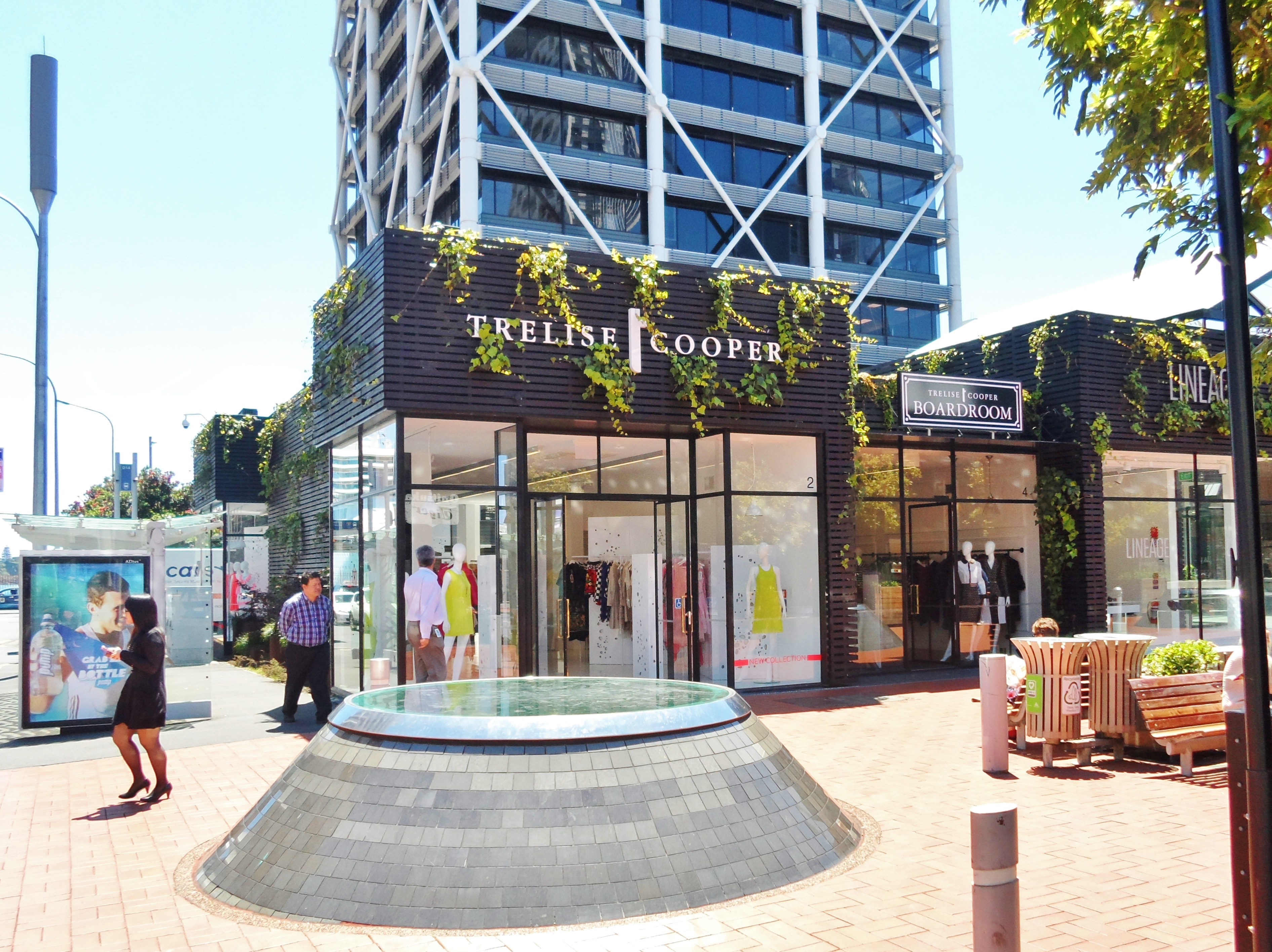 New Zealand fashion designer Trelise Cooper's flagship boutique and Trelise Cooper Boardroom flagship store at The Pavillions in Britomart in Auckland, New Zealand in 2013. Summary New Zealand fashion designer Trelise Cooper's flagship boutique and Trelise Cooper Boardroom flagship store at The Pavilions in Britomart in Auckland, New Zealand in 2013.